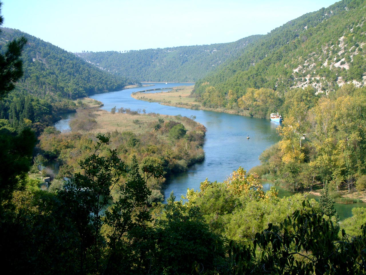 Lower part of the Krka river, Croatia. K. Korlević (Korlevic)